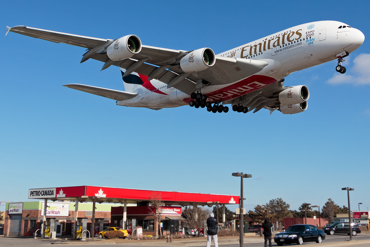 Emirates Airbus A380 on finals to runway 23 at Toronto Pearson